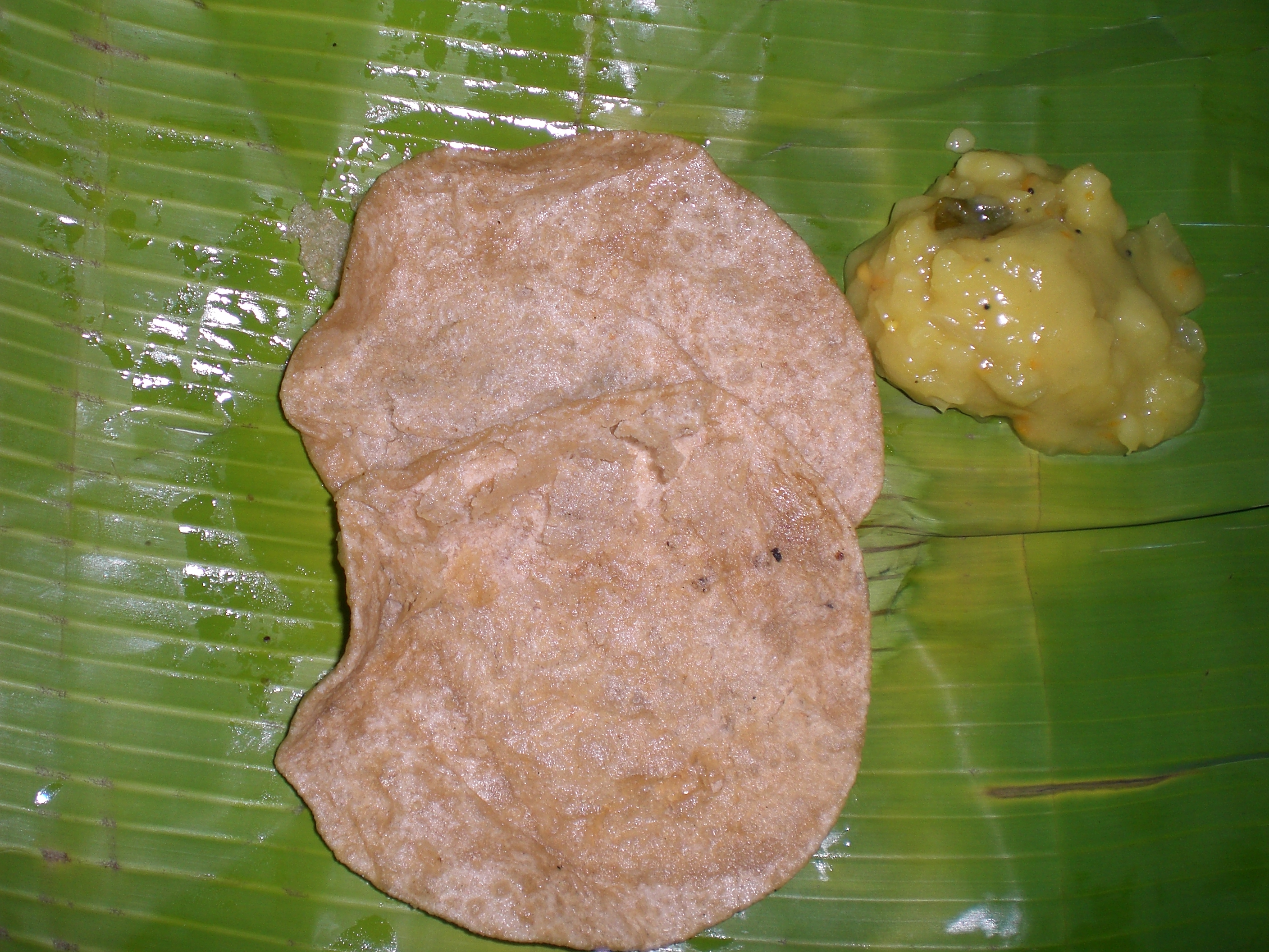 Poori & Potato Masala